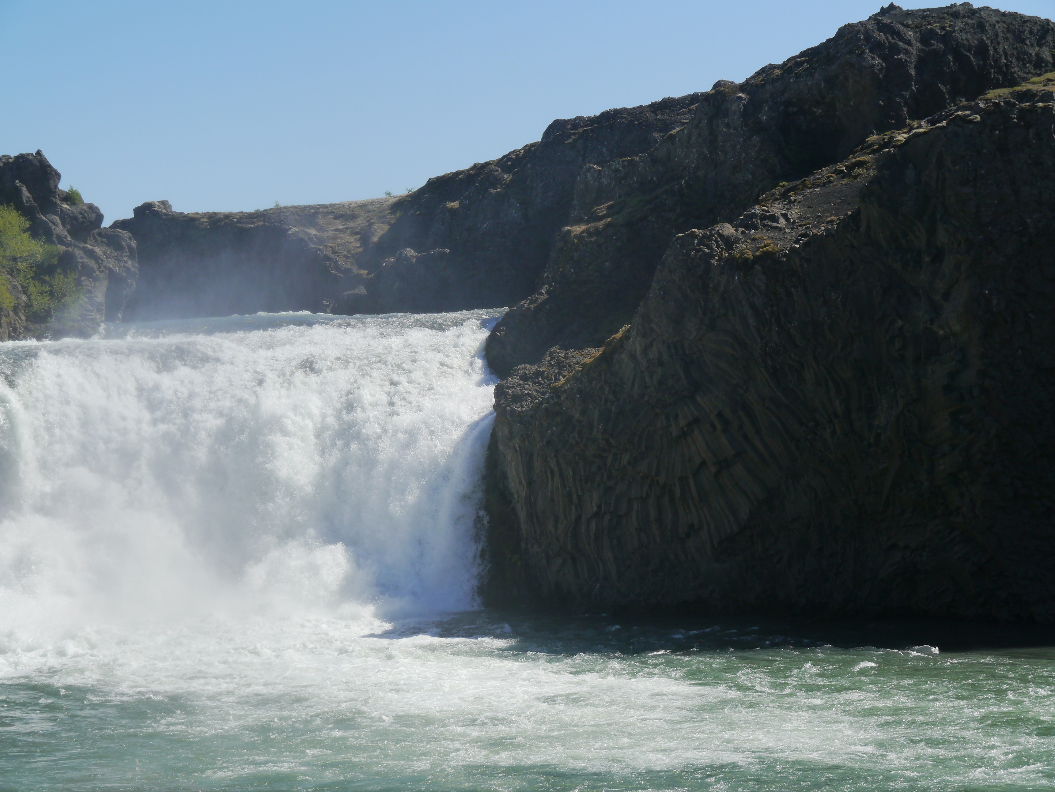 Hjálparfoss